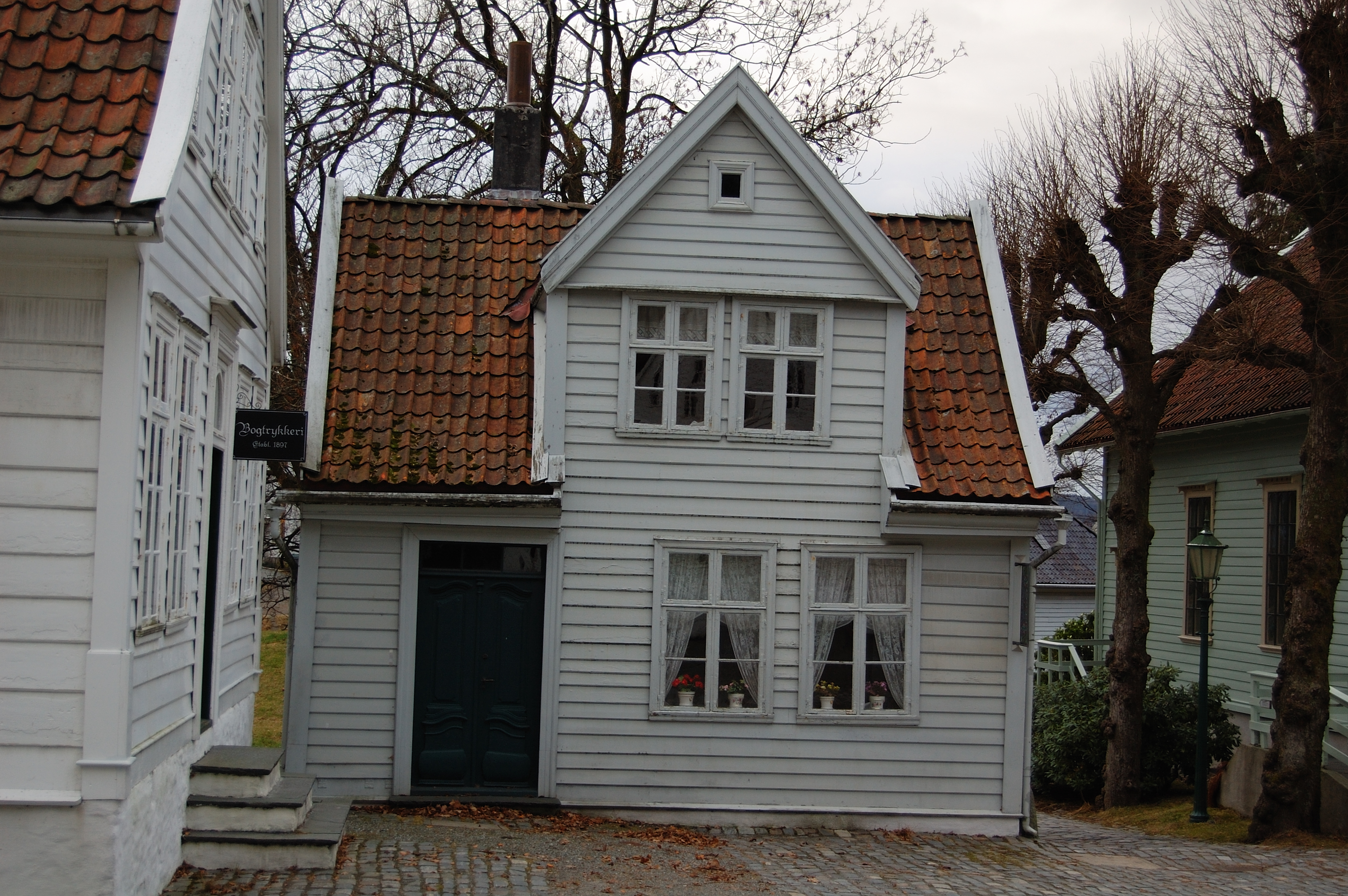 Gamle Bergen - open air museum in Bergen, Norway.